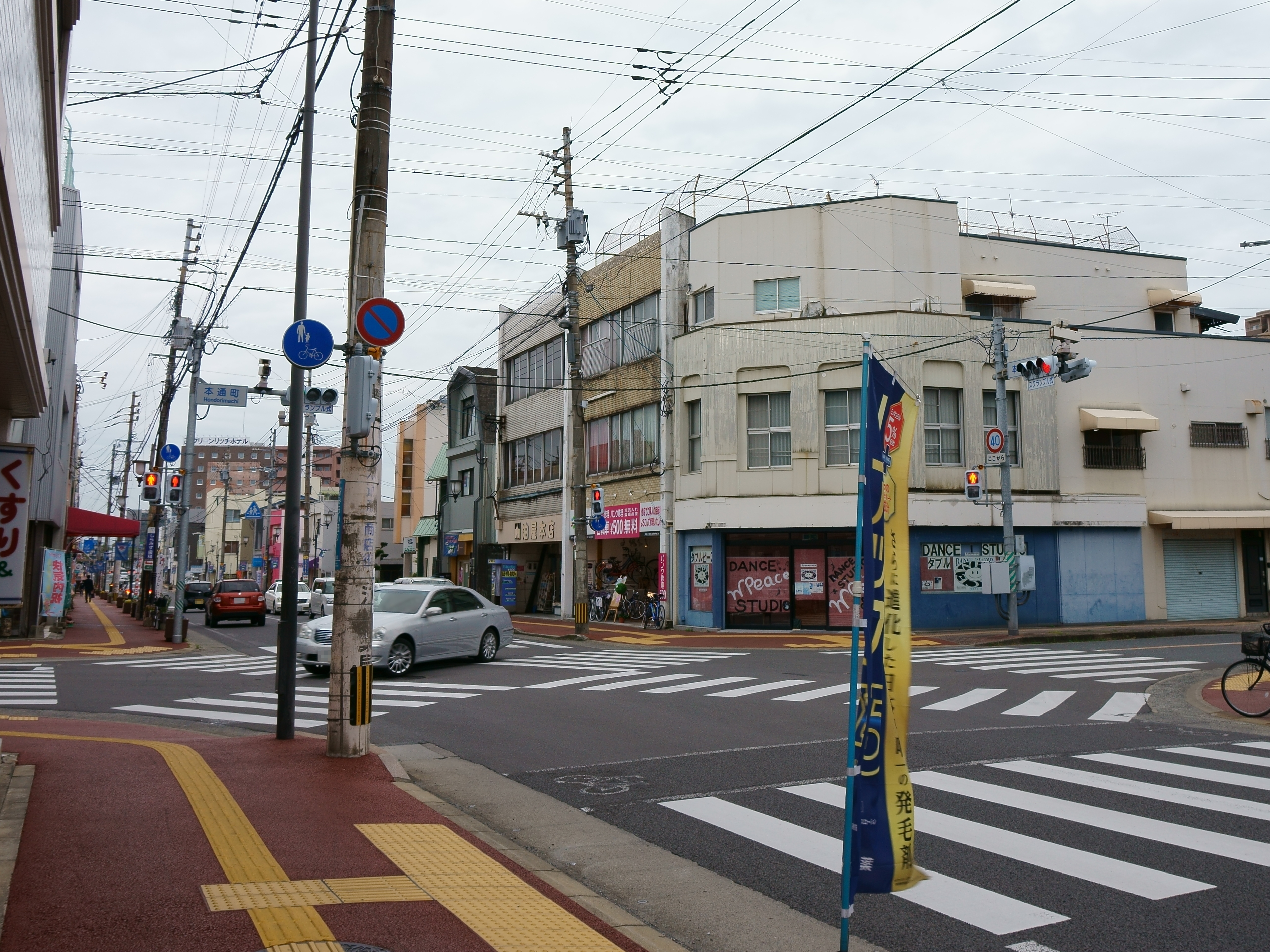 Hondorimachi intersection in Tosu city, Saga prefecture.